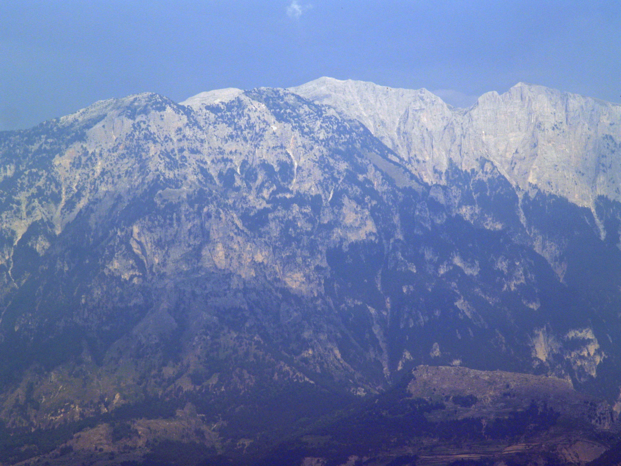 Mount Tomorr as seen from village of Berta, Berat County, Albania